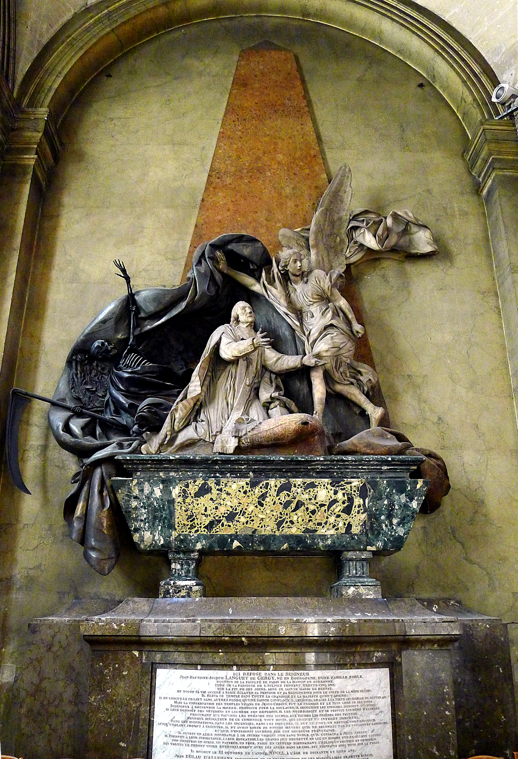 Jean-Baptiste-Joseph Languet de Gergy's grave - Saint-Sulpice - Paris